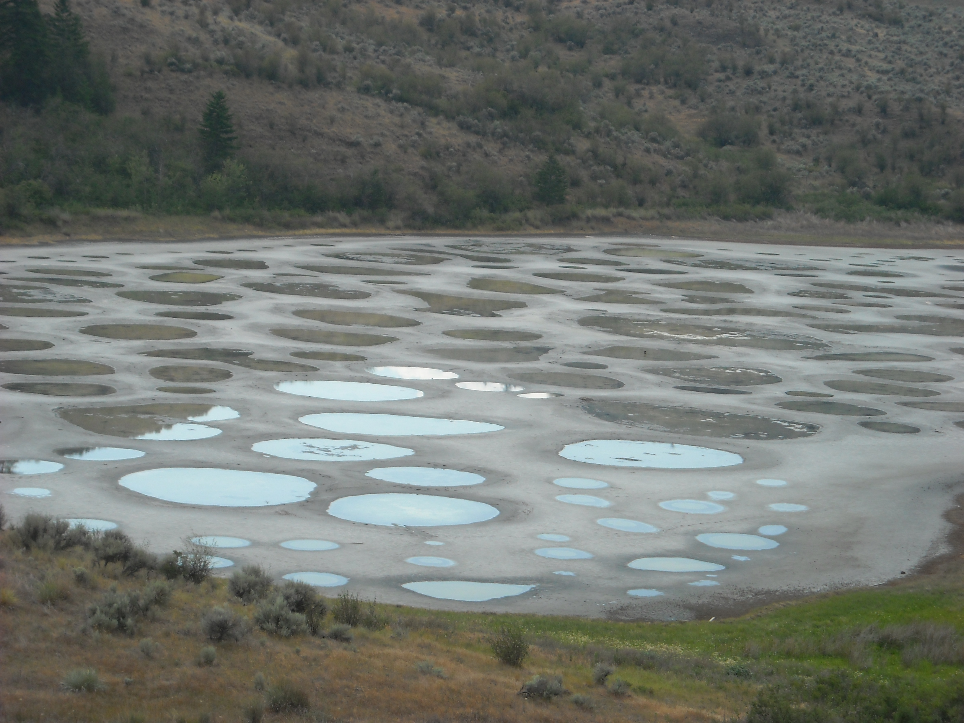 A zoomed-in shot of Spotted Lake from Highway 3.